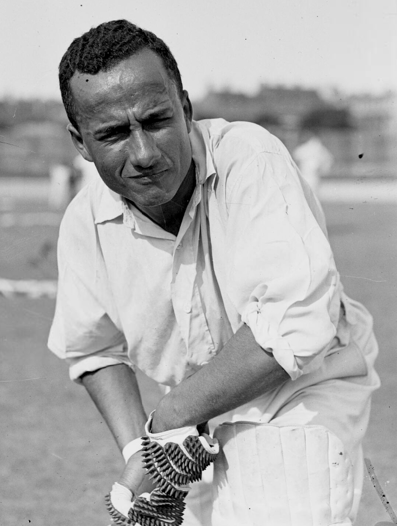 West Indian cricketer Barto Bartlett during his team's 1930–31 tour of Australia.